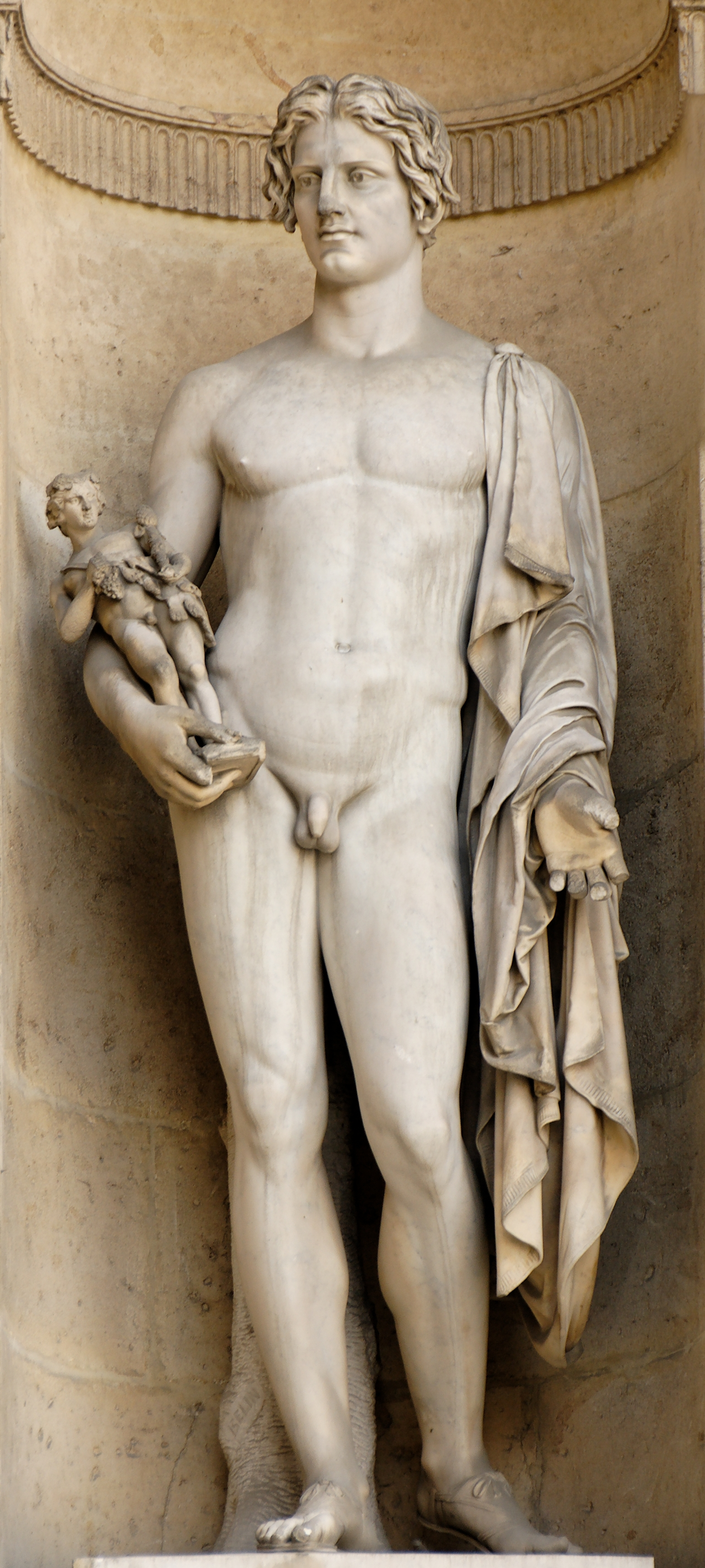 Eurypylus (1860), by Henri Iselin (1858-1905). West façade of the Cour Carrée in the Louvre palace, Paris.